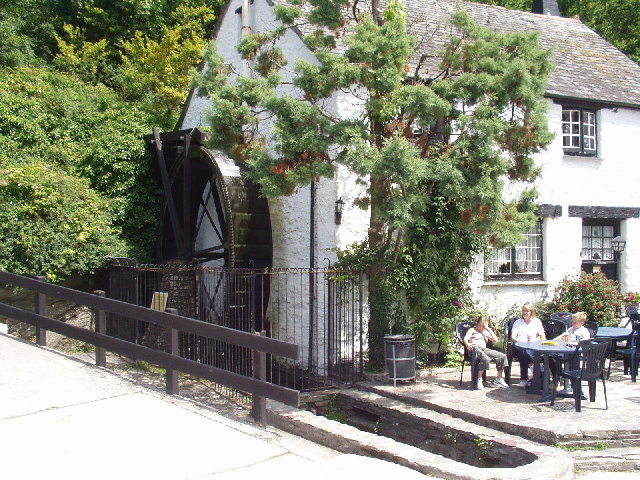 Watermill, Polperro. At the top of the village